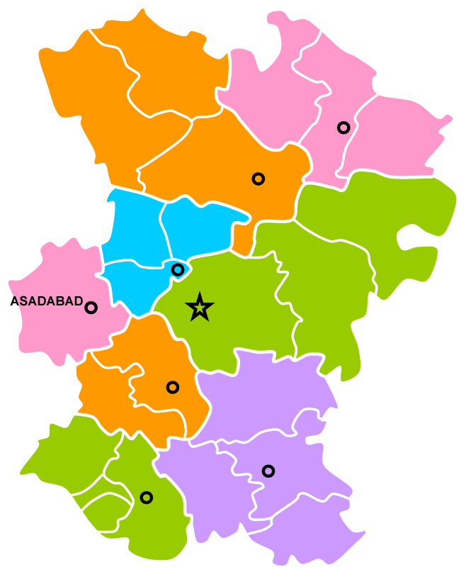 Asadabad sharestan Hamedan province, Administrative map.